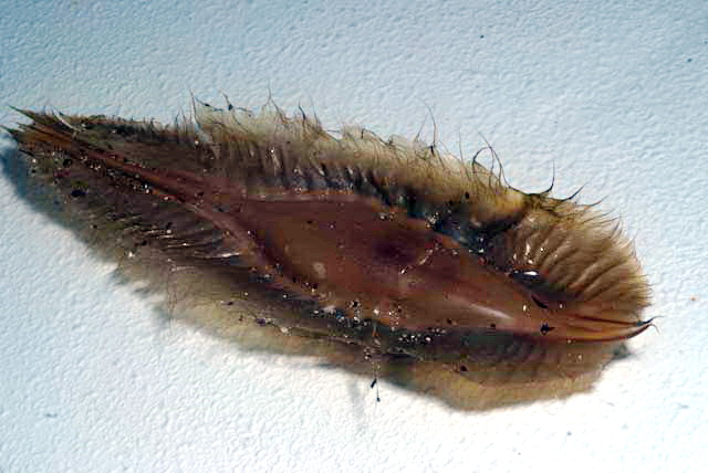 a photograph of the egg case of a Cape elephantfish, Callorhinchus capensis which had washed up on the slipway at Millers Point False Bay South Africa. taken with Fuji SP5 Pro on land